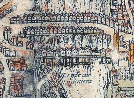 « Meuniers » (muniers) bridge on the plan of Braun and Hogenberg (c.1530, published in 1572, edition of 1593).